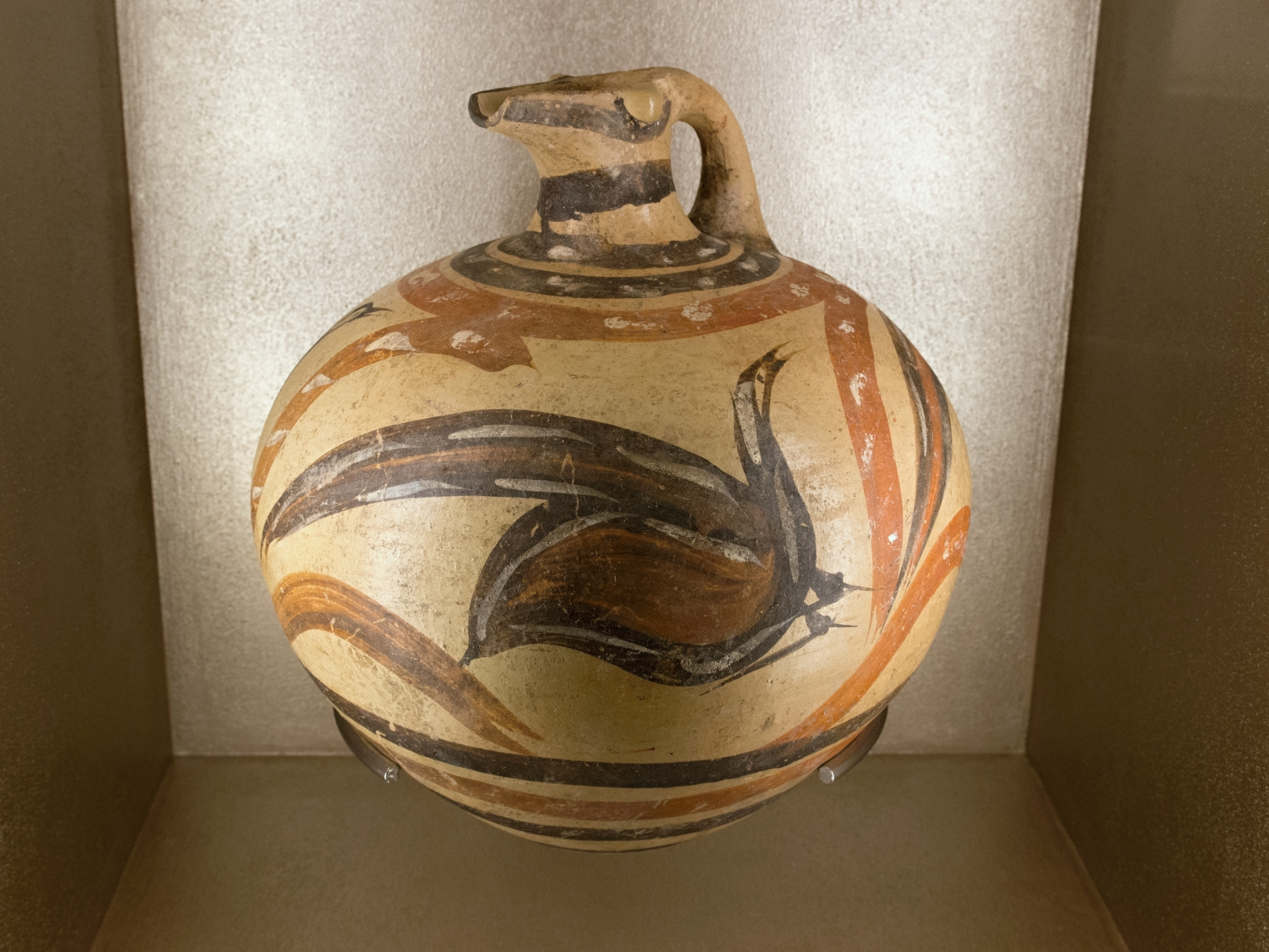 Nippled clay Jug. From Akrotiri on Thera (Santorini), Late Cycladic I, 17th century BC. National Archaeological Museum of Athens, Akr. 1838.